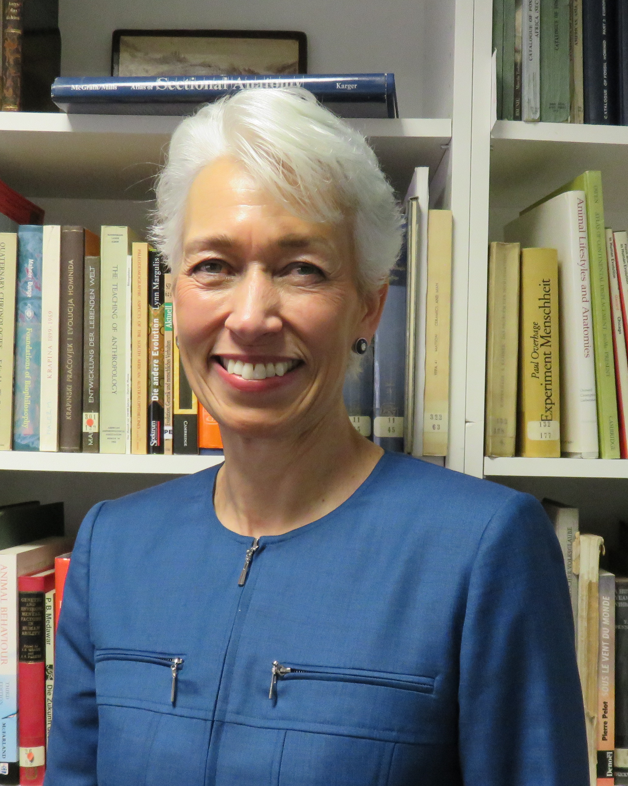 Nina Jablonski, Evan Pugh Professor of Anthropology, Department of Anthropology, The Pennsylvania State University